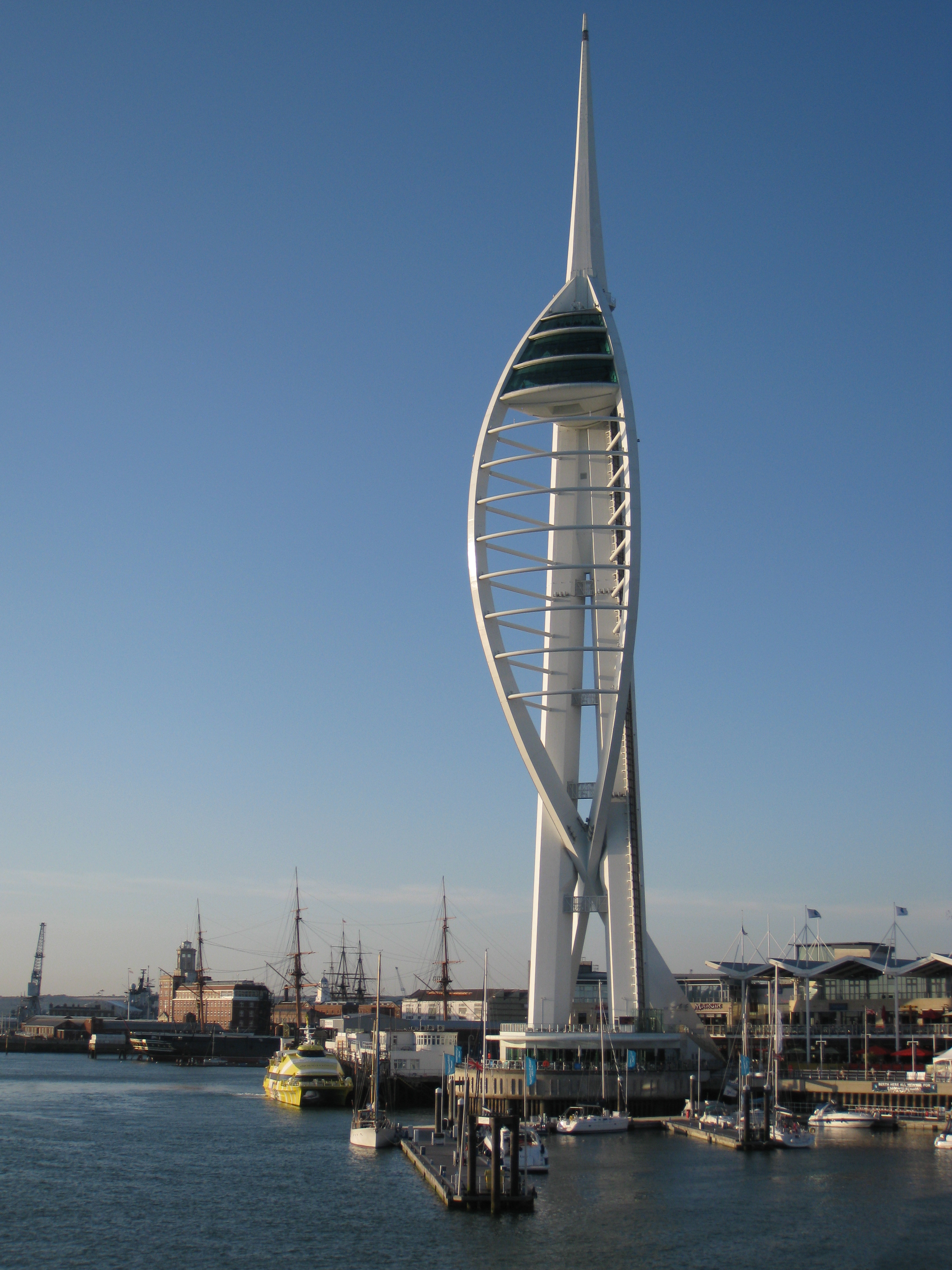 Spinnaker Tower, Portsmouth